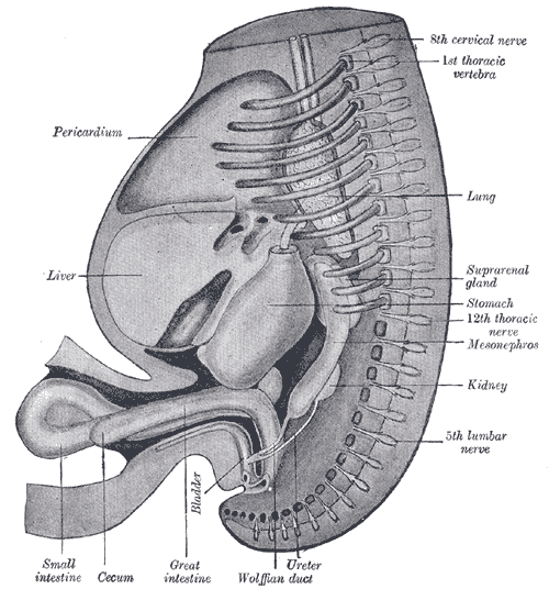 Reconstruction of a human embryo of 17 mm. (After Mall.)